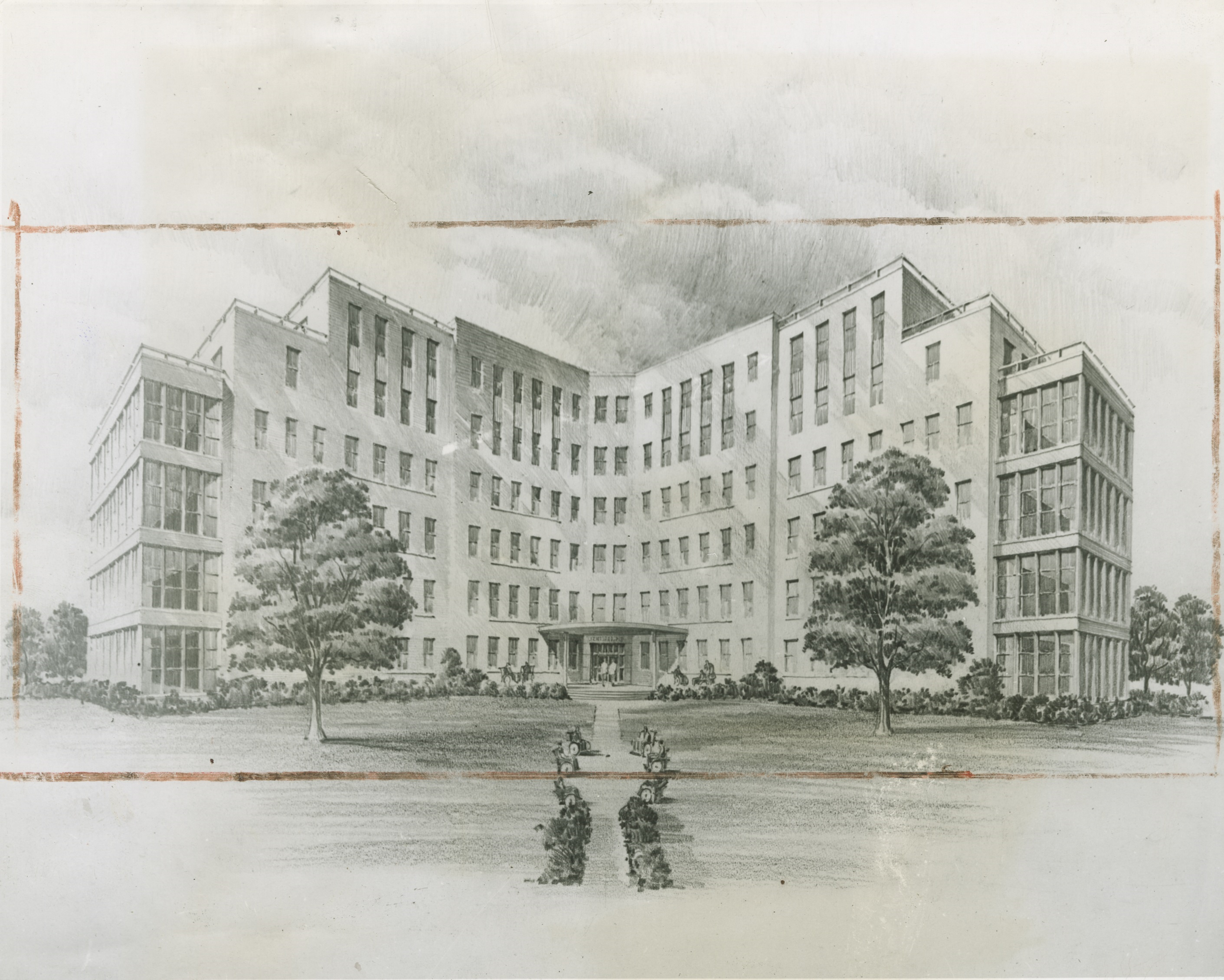 Architectural rendering of proposed hospital building in 1945 which is the present day Shirley Joyce Katz Pavilion